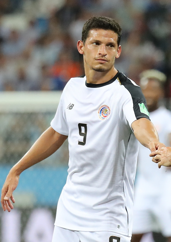 Daniel Colindres at the 2018 FIFA World Cup match between Costa Rica and Switzerland.